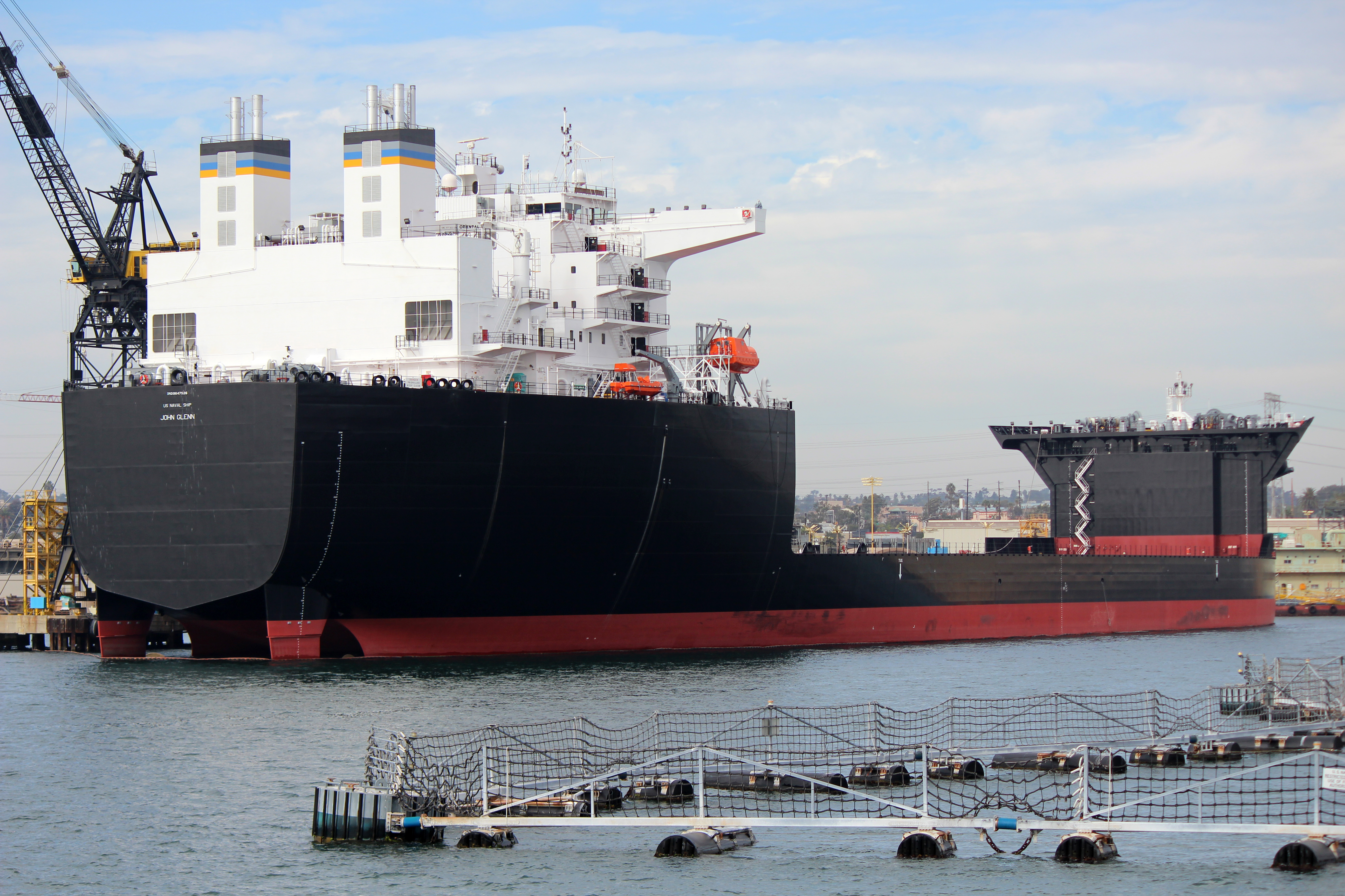 USNS John Glenn (T-MLP-2) moored at National Steel and Shipbuilding Company (NASSCO) in San Diego, California.